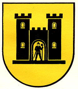 Coat of arms of Category:Lütisburg, canton of St. Gallen, Switzerland